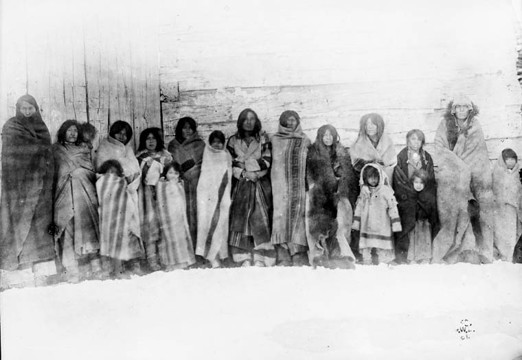 Blood Indians at Fort Whoop-Up, Alberta in 1881